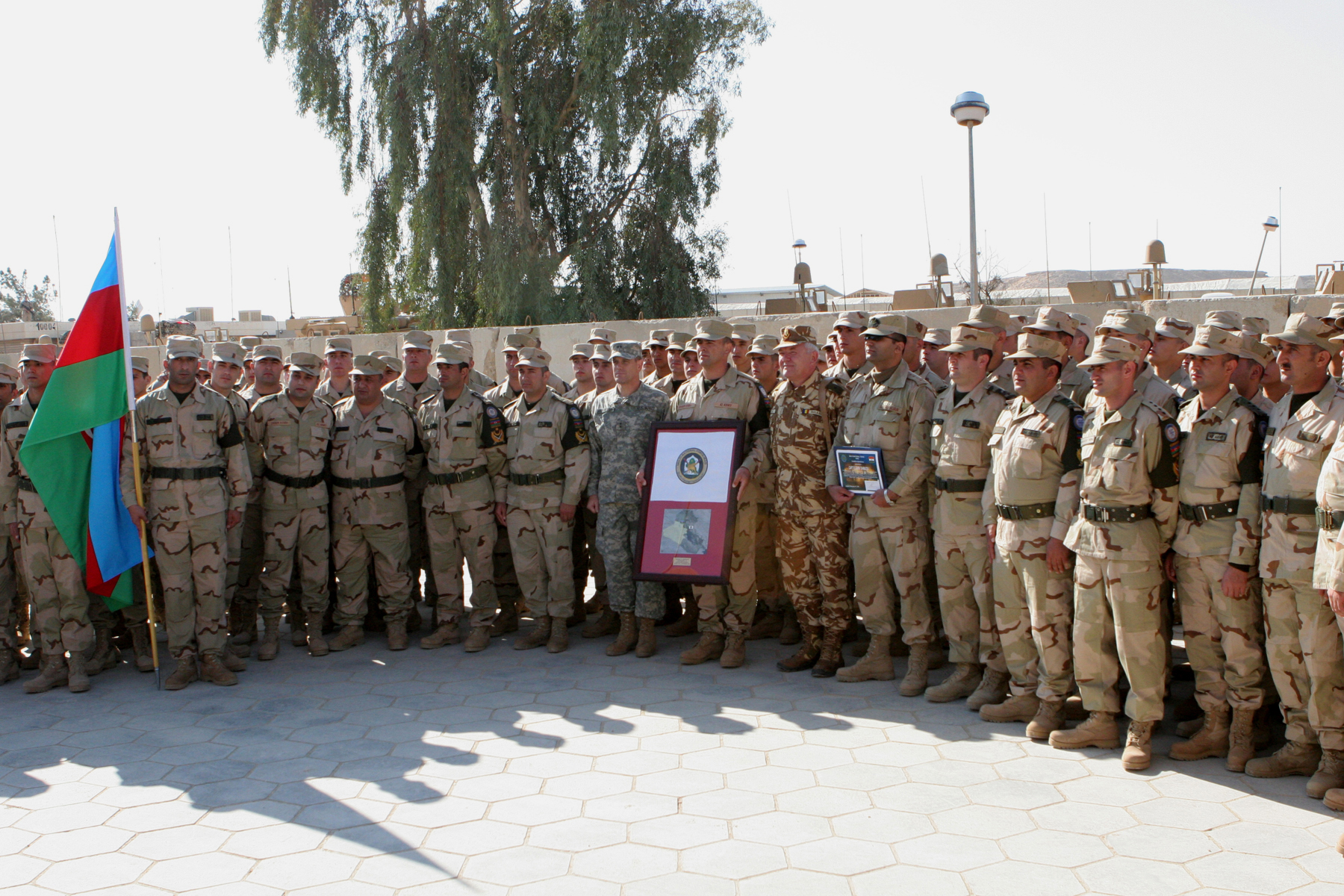 Soldiers with the 1st Azerbaijani Peacekeeping Company pose for a photograph after a ceremony at Camp Ripper, Al Asad Airbase, Iraq, Dec. 3, to recognize the efforts made by the Azerbaijani soldiers. Azerbaijani soldiers have been providing security at the Haditha Dam since 2003 and will soon be returning home after turning over security of the dam to Iraqi Security Forces. Azerbaijan is a small country near the Caspian Sea that is approximately the size of South Carolina.